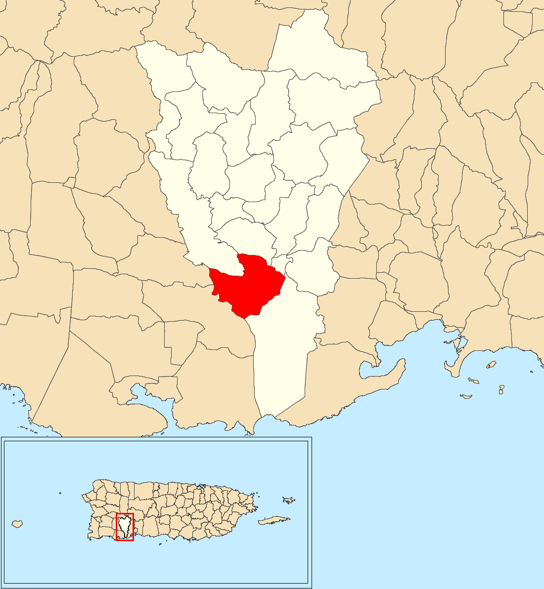 Susúa Baja, Yauco, Puerto Rico locator map